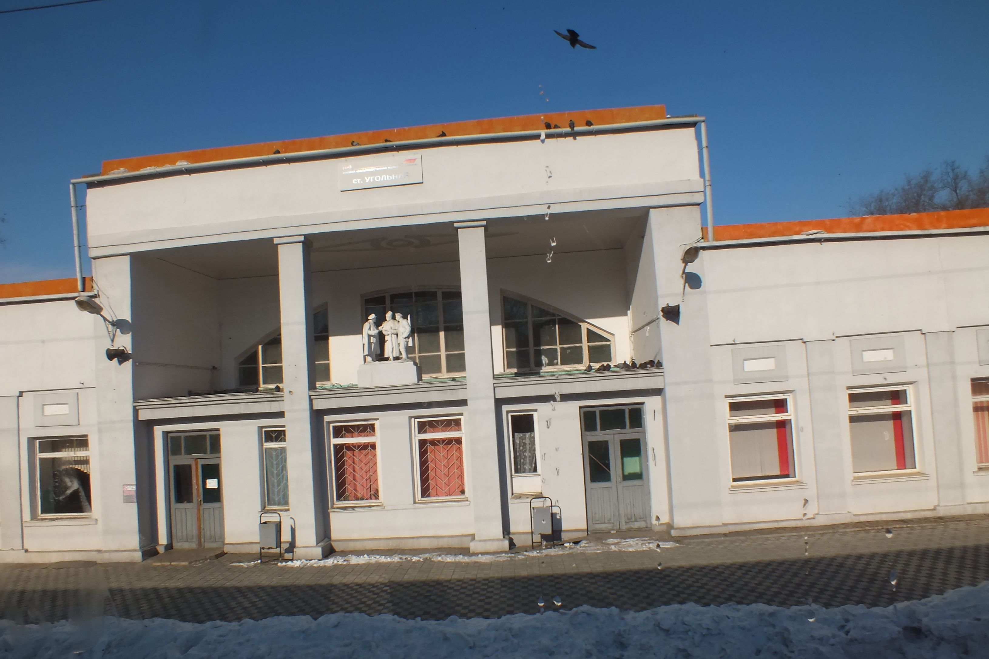 Train stations in Primorsky Krai